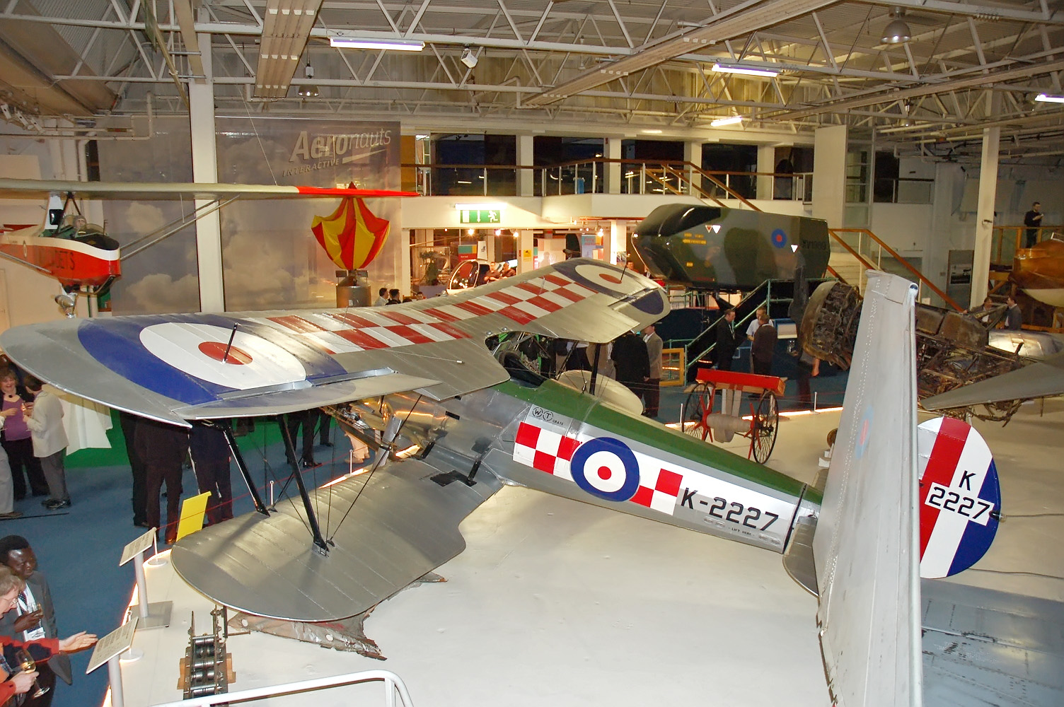 A Bristol Bulldog at the RAF Museum, Hendon, photographed by Robin Stevens on 5 April 2006.